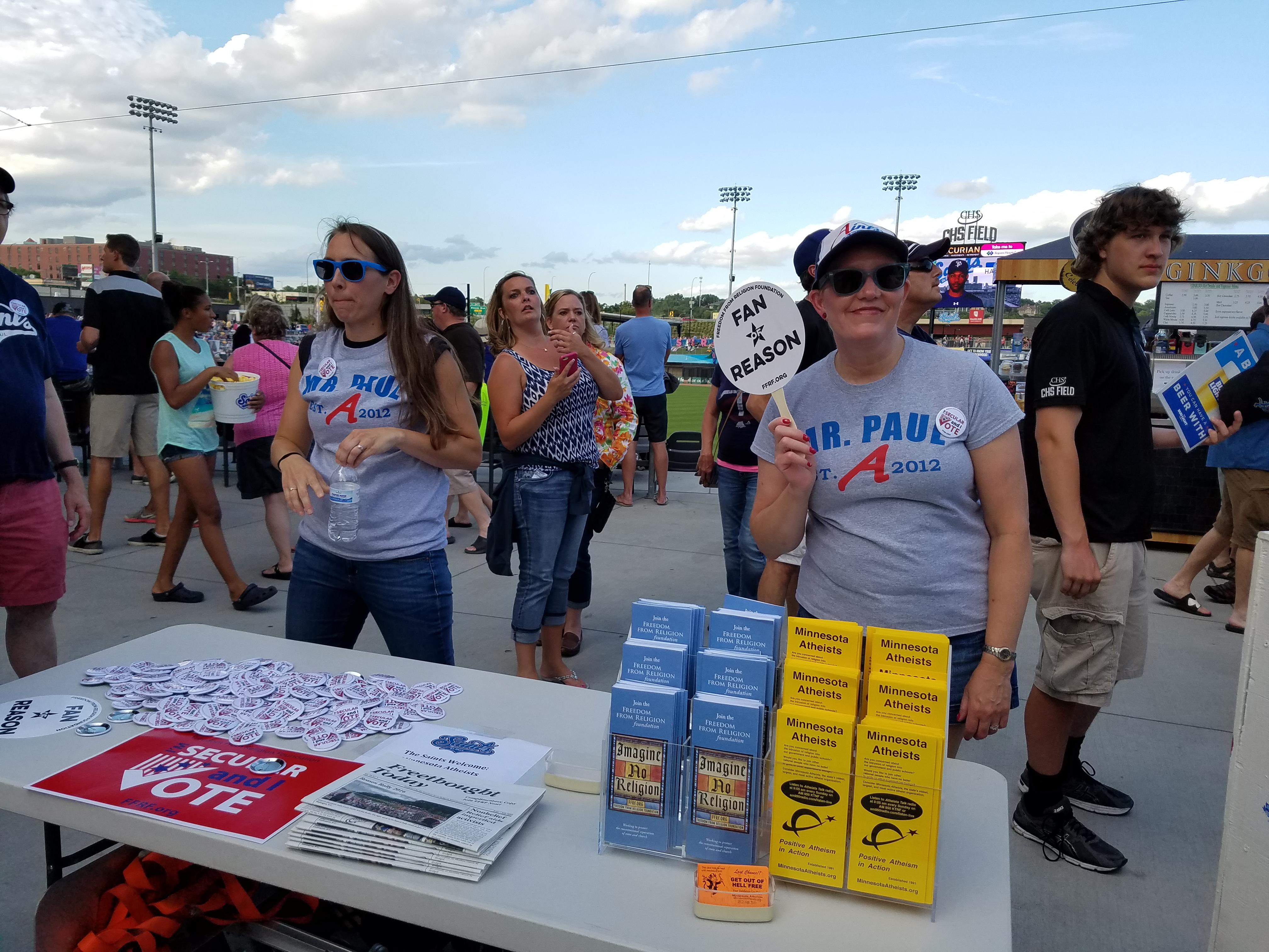 Minnesota Atheists volunteers greet fans at CHS Field for sponsored St. Paul Saints baseball game